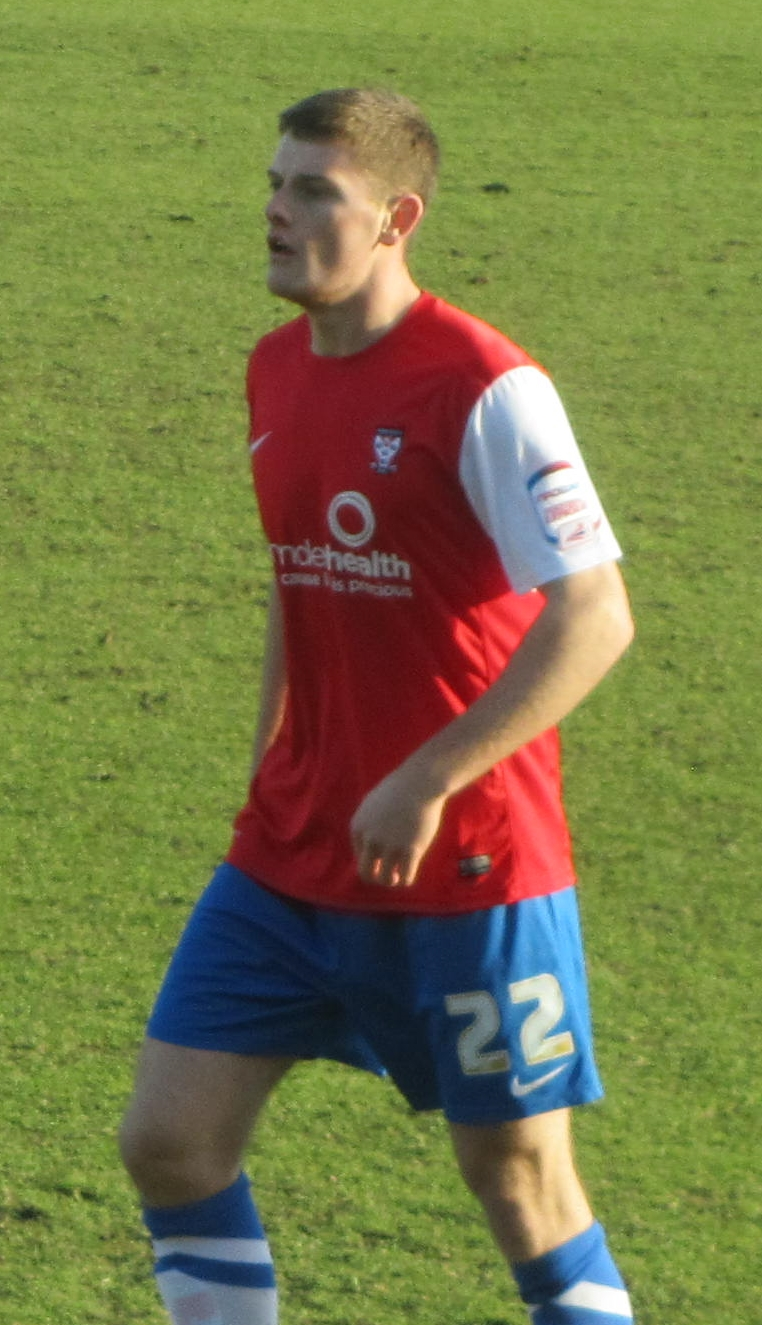 Jack O'Connell playing for York City against Barnet at Bootham Crescent, York on 16 February 2013